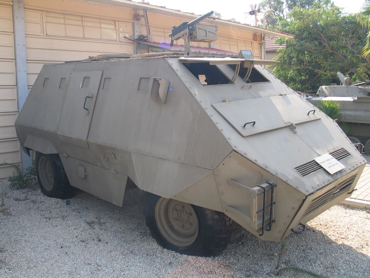 Description: UR-416 armored personnel carrier in Batey ha-Osef museum, Tel Aviv, Israel. 2005. The vehicle was used by PLO militants. Source: Photo by me, User:Bukvoed.